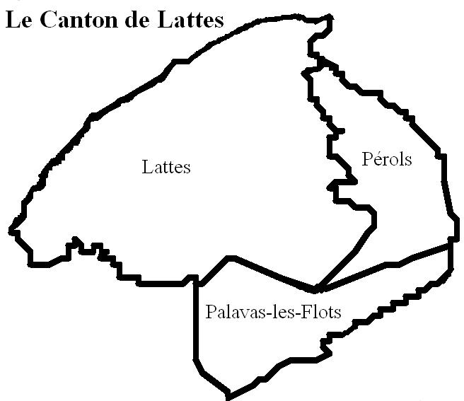 Canton of Lattes - Hérault Image personnelle